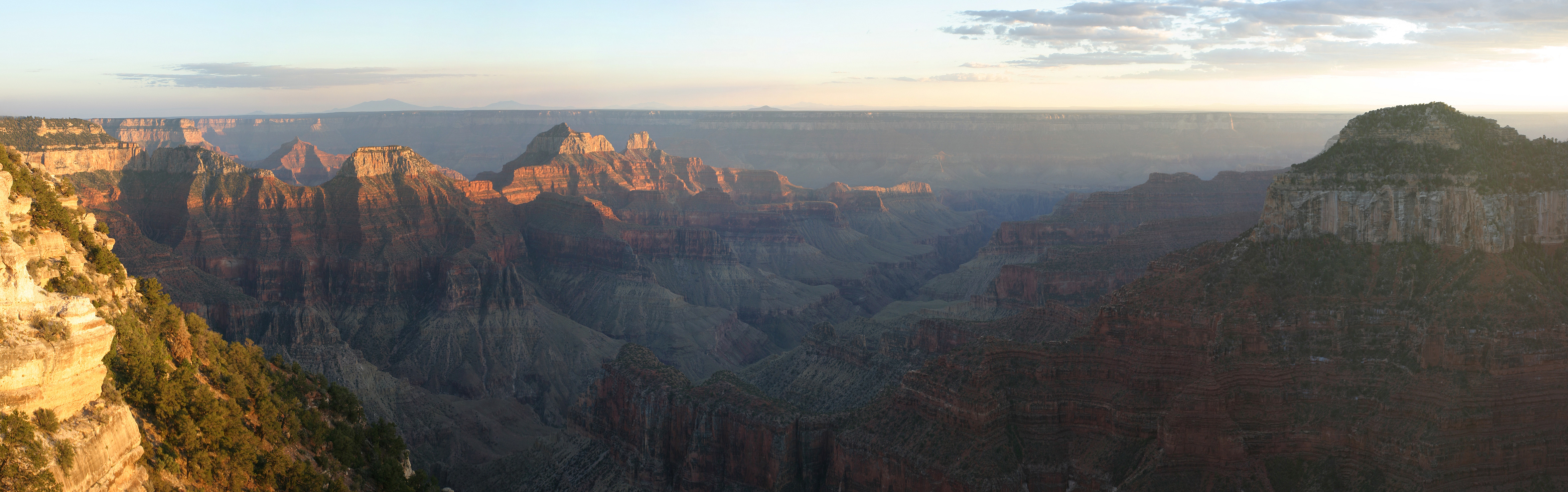 A panoramic view of the Grand Canyon from the North Rim. Taken by myself with a Canon 10D and 17-40mm f/4L fireball.